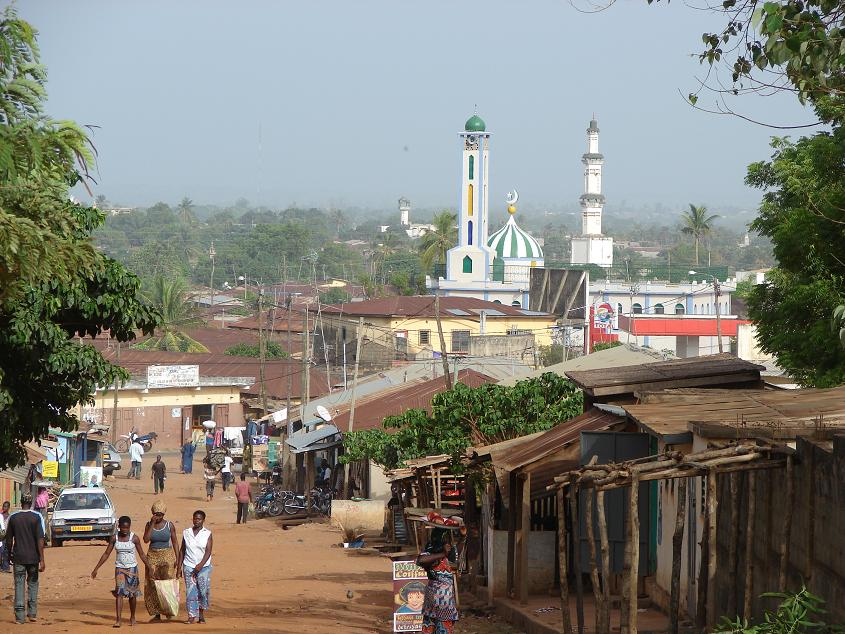 View on the centre of Sokodé: New Mosque in the front - Great Mosque in the back